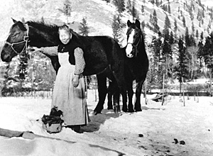 Polly Bemis with her horses, Nellie and Julie, Feb. 6, 1910, Idaho. Courtesy of the Idaho State Historical Society, Neg. No. 62-44.7.